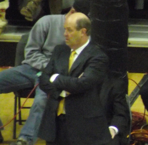 Kevin Stallings, the head coach of the Vanderbilt Commodores basketball program